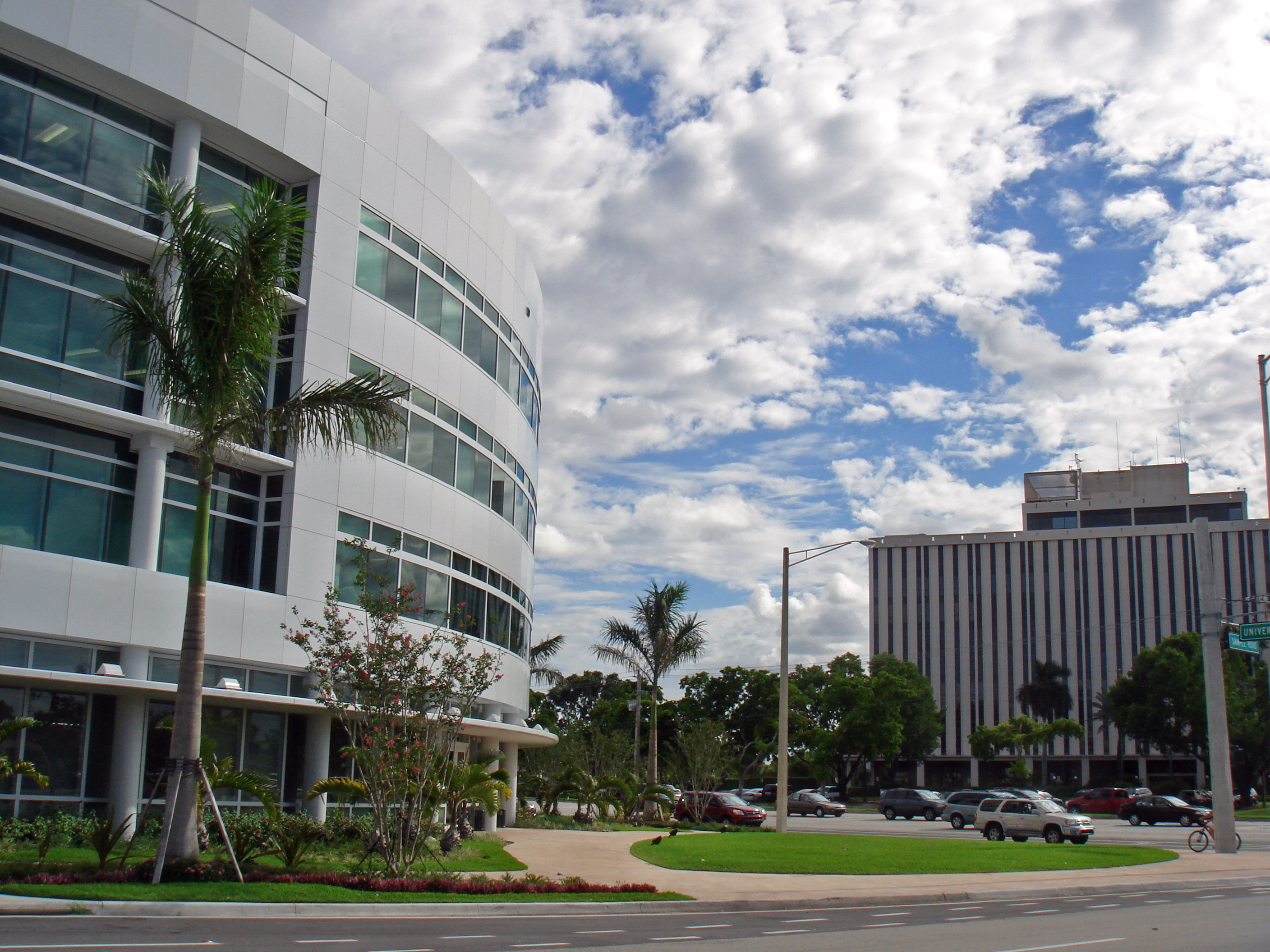 Coral Springs One Charter Place - Levels Corrected and Cropped